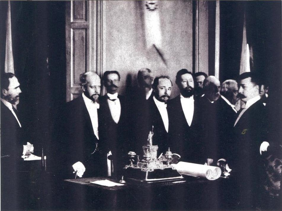 Argentine politicians Julio Argentino Roca, Miguel Juarez Celman, Eduardo Wilde and other personalities members of the "Generación del '80".